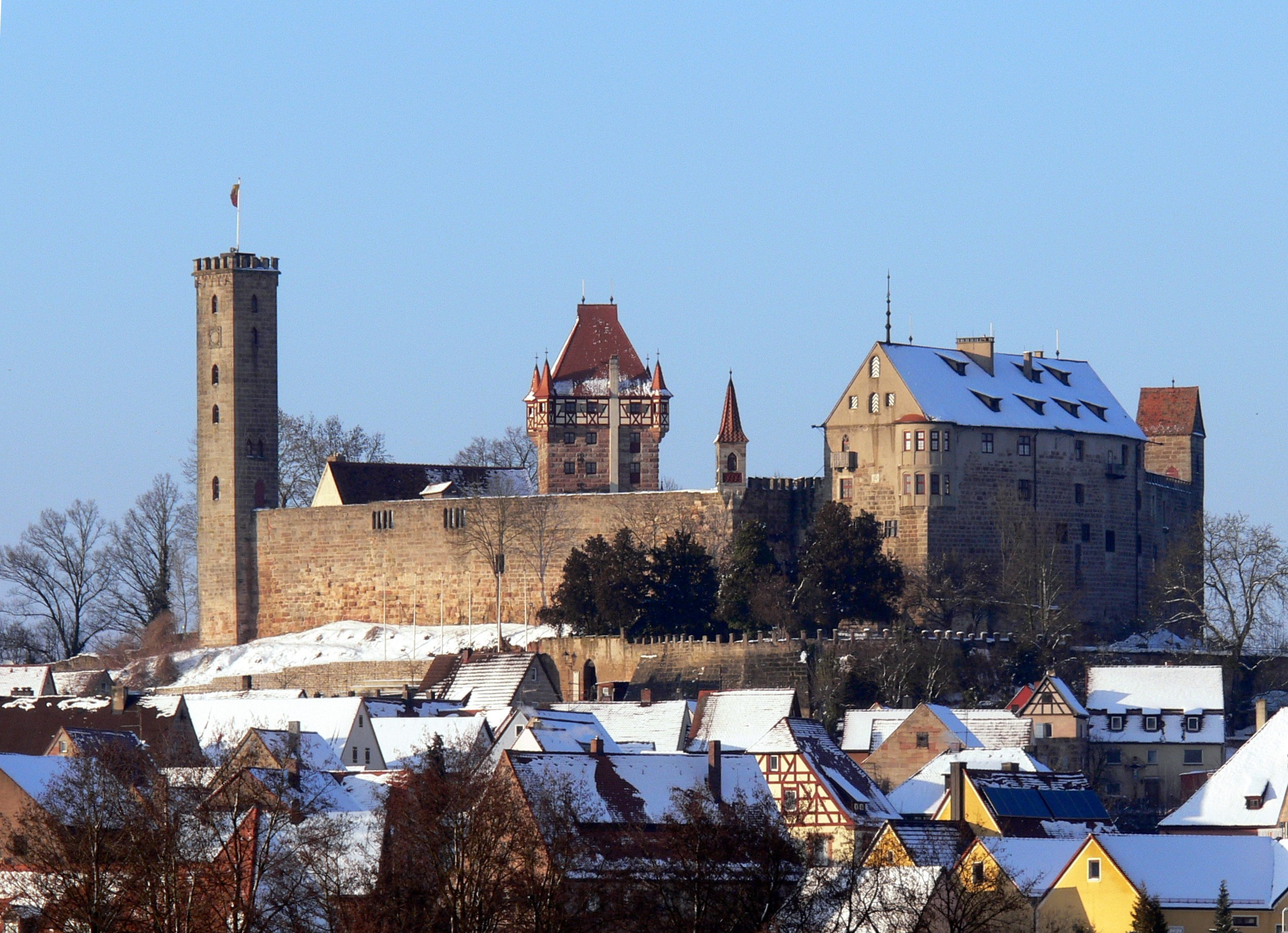 Abenberg castle seen from the monastery of Marienberg.